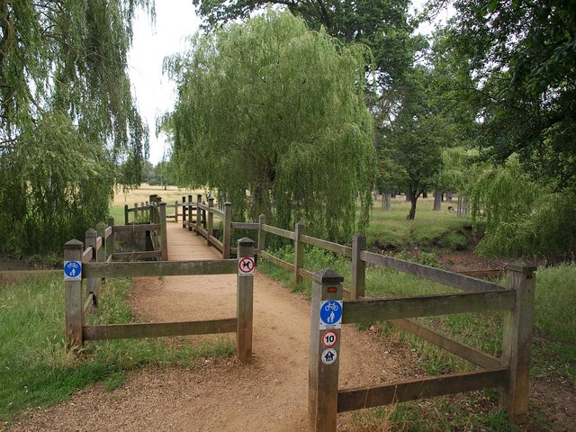 Dual use path, Richmond Park The path between Roehampton Gate and East Sheen Gate crosses Beverley Brook amid willows.